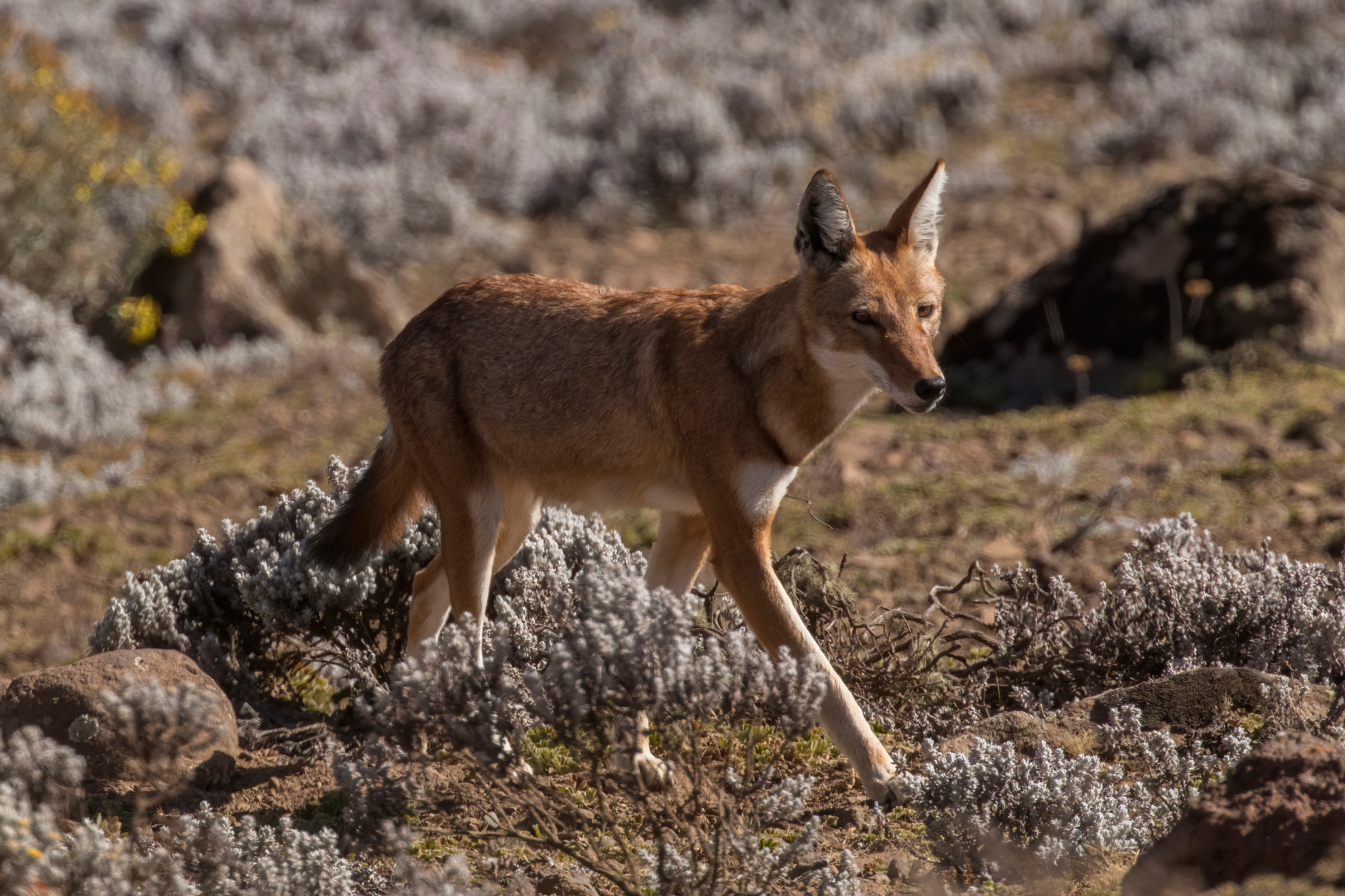 Ethiopian wolf (Canis simensis citernii), Sanetti Plateau, Ethiopia